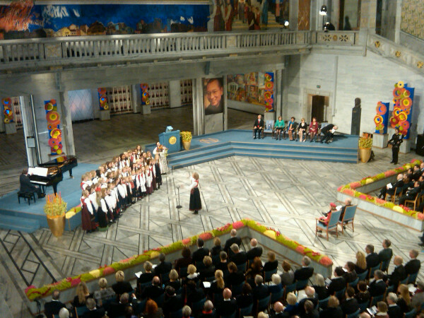 2010 Nobel Peace Prize Ceremony